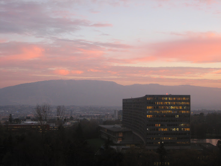 ILO building in Geneva with Salève in the background, taken from the top of the WHO building